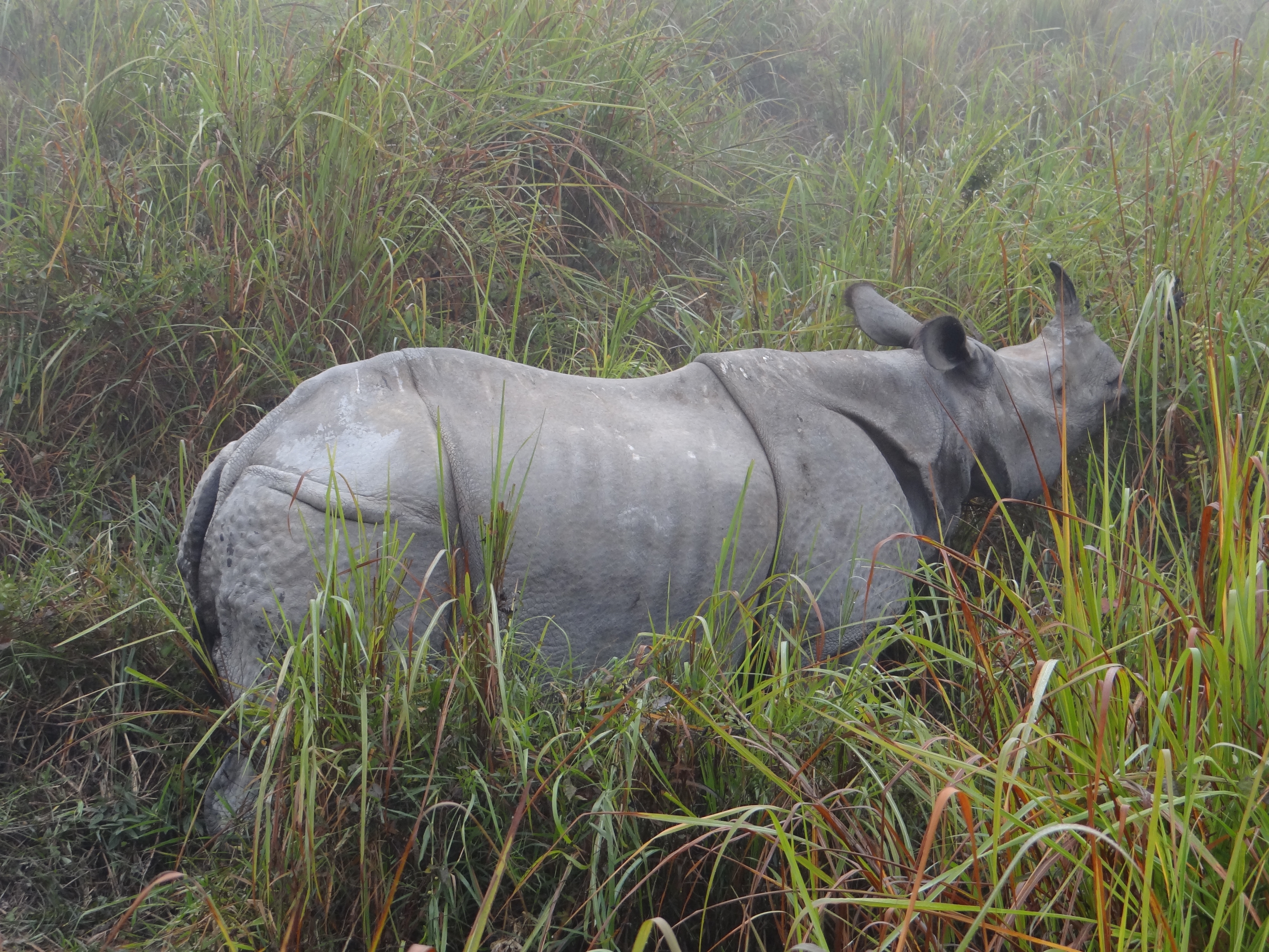 Its snack time.